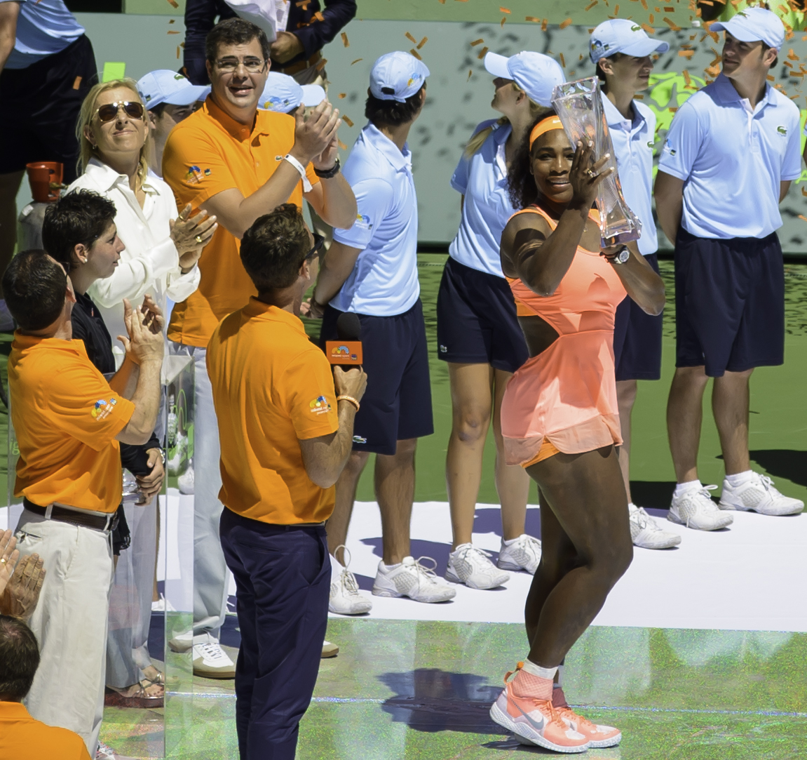 Serena Williams won her eighth Key Biscayne, Miami Open title while she has not been beaten in 2015, this is her 21-match winning in a row! ...only three women in the history of tennis had won an event eight times or more: Chris Evert, Martina Navratilova and Steffi Graf, which is about as esteemed list as you can get. After a dominant 6-2, 6-0 over Carla Suarez Navarro in the finals of the Miami Open, Serena Williams can be added to it. Ref: Despite Saturday's hammering, Suarez Navarro can be happy with her week in Miami where she captured some big scalps including that of Serena's elder sister Venus Williams in the quarter finals. Ref: Key Biscayne, Miami, Florida. 5 6 ISO: 100